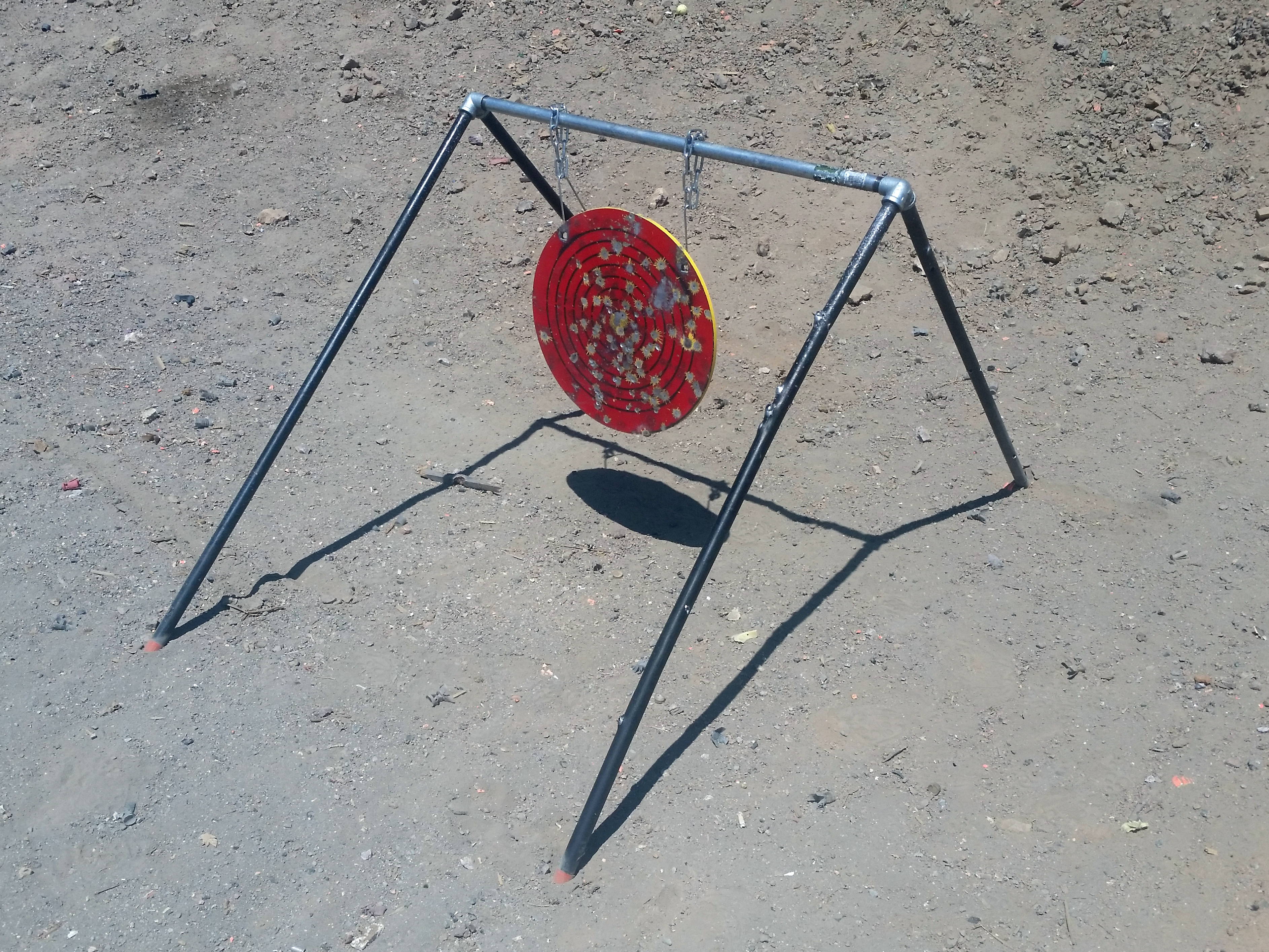 A single steel target for shooting